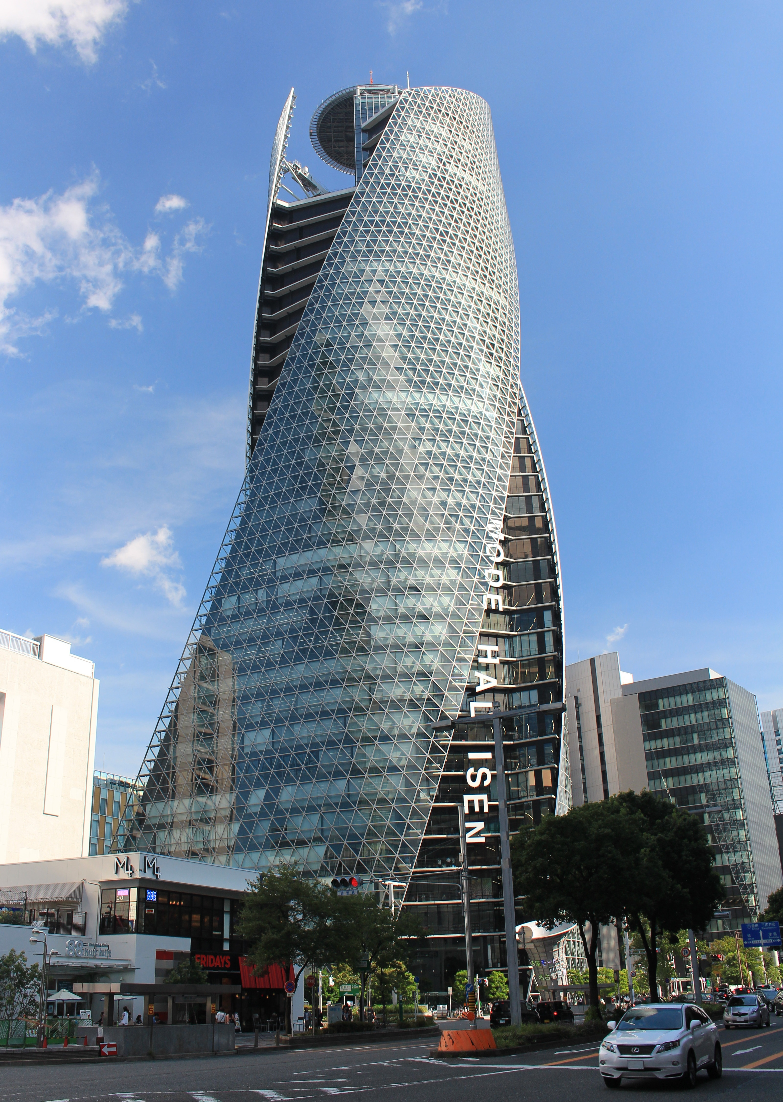 Mode Gakuen Spiral Towers